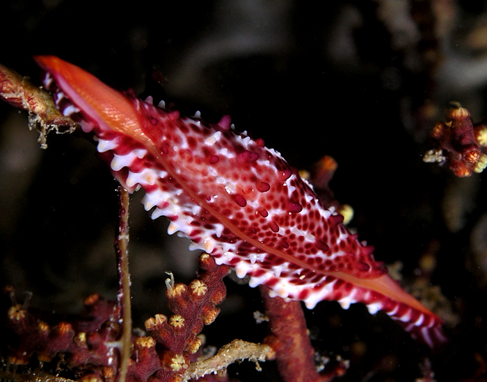 Oblong ovulid cowry (Phenacovolva tokioi) from East Timor.